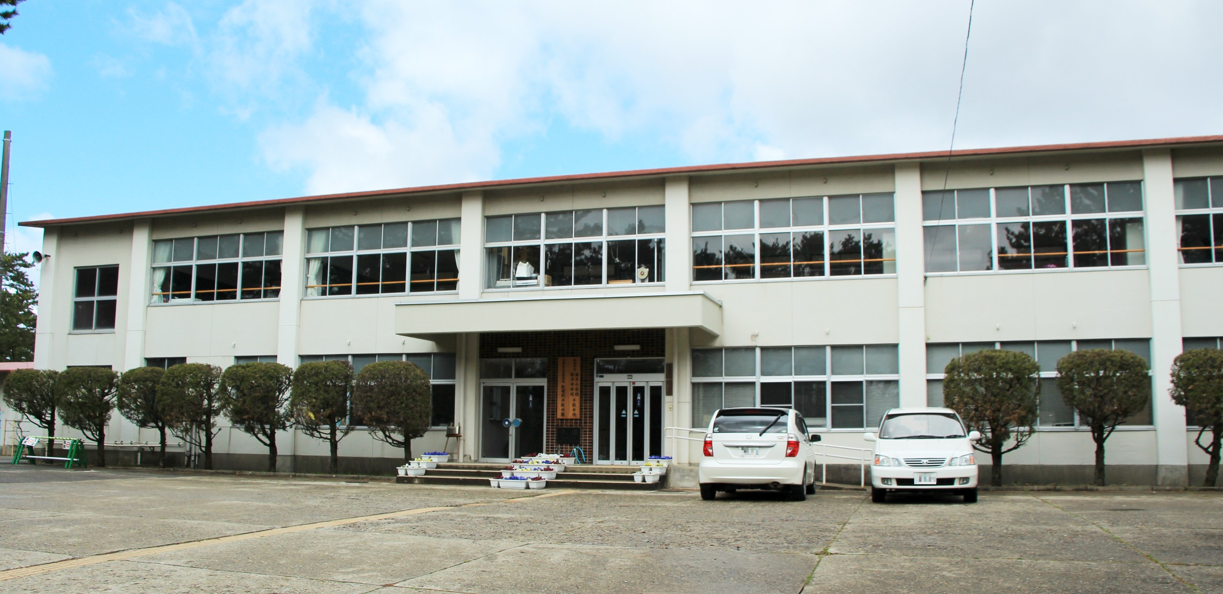 Akita prefecture children's self-reliance support facilities "Senshu Gakuen". Taken on May 3, 2013.